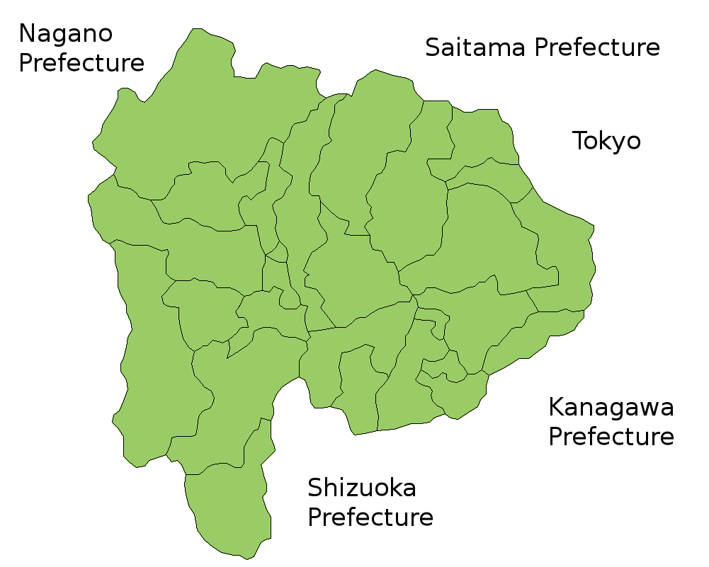 Map of Yamanashi Prefecture, Japan. Thanks to Aoki Shigenobu and [1]. Colors from Image:TokyoMapCurrent.png by User:Fg2.